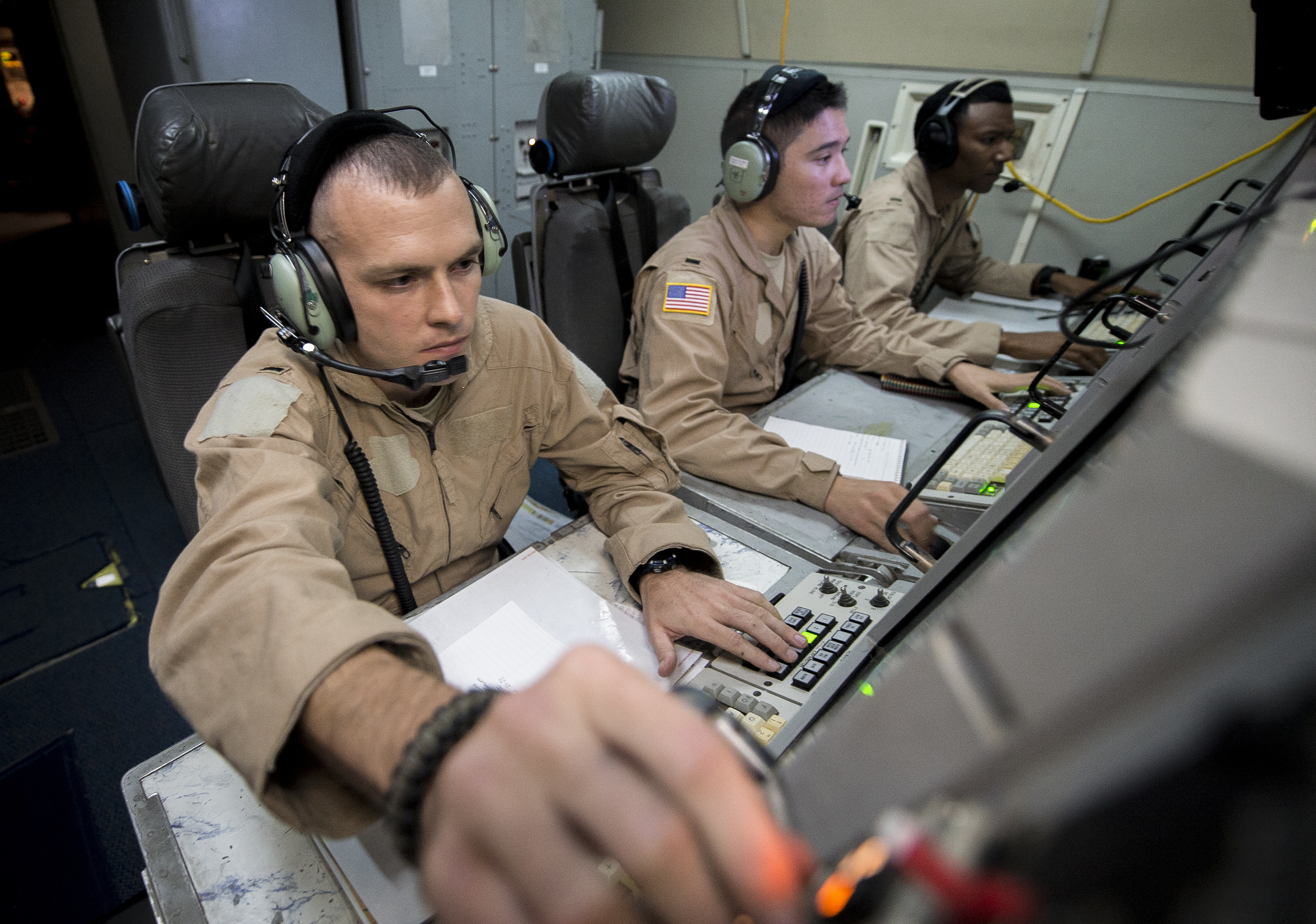 U.S. Air Force E-3B Sentry airborne warning and control system (AWACS) crew members conduct a mission in support of airstrikes against ISIL targets over northeastern Iraq, Oct. 2, 2014. The AWACS have been a part of the recent missions taking place in Iraq and Syria, controlling coalition aircraft to assist in eliminating ISIL targets. (U.S. Air Force's Central Photo)(Released)